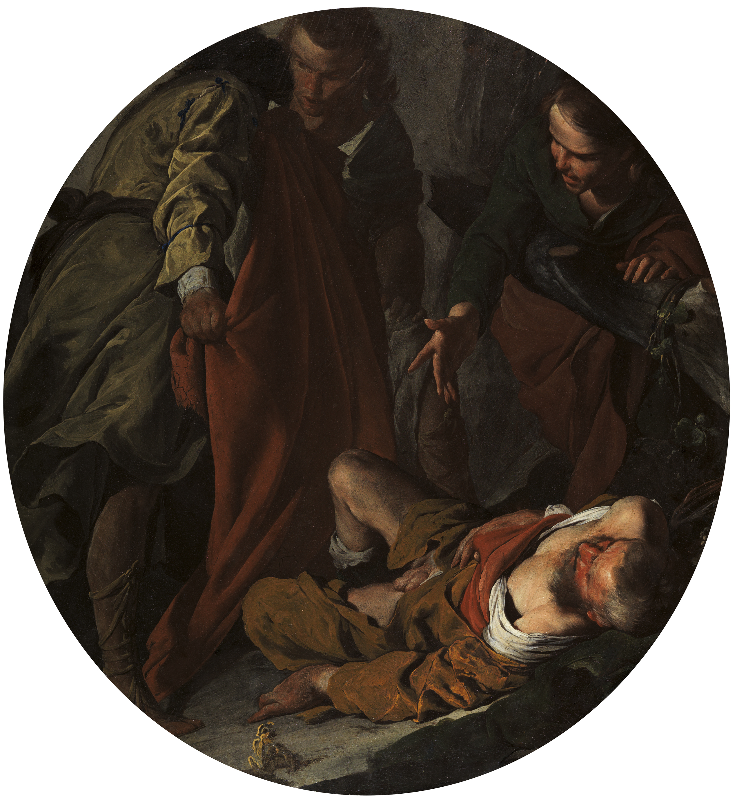 Book of Genesis 9,20-23